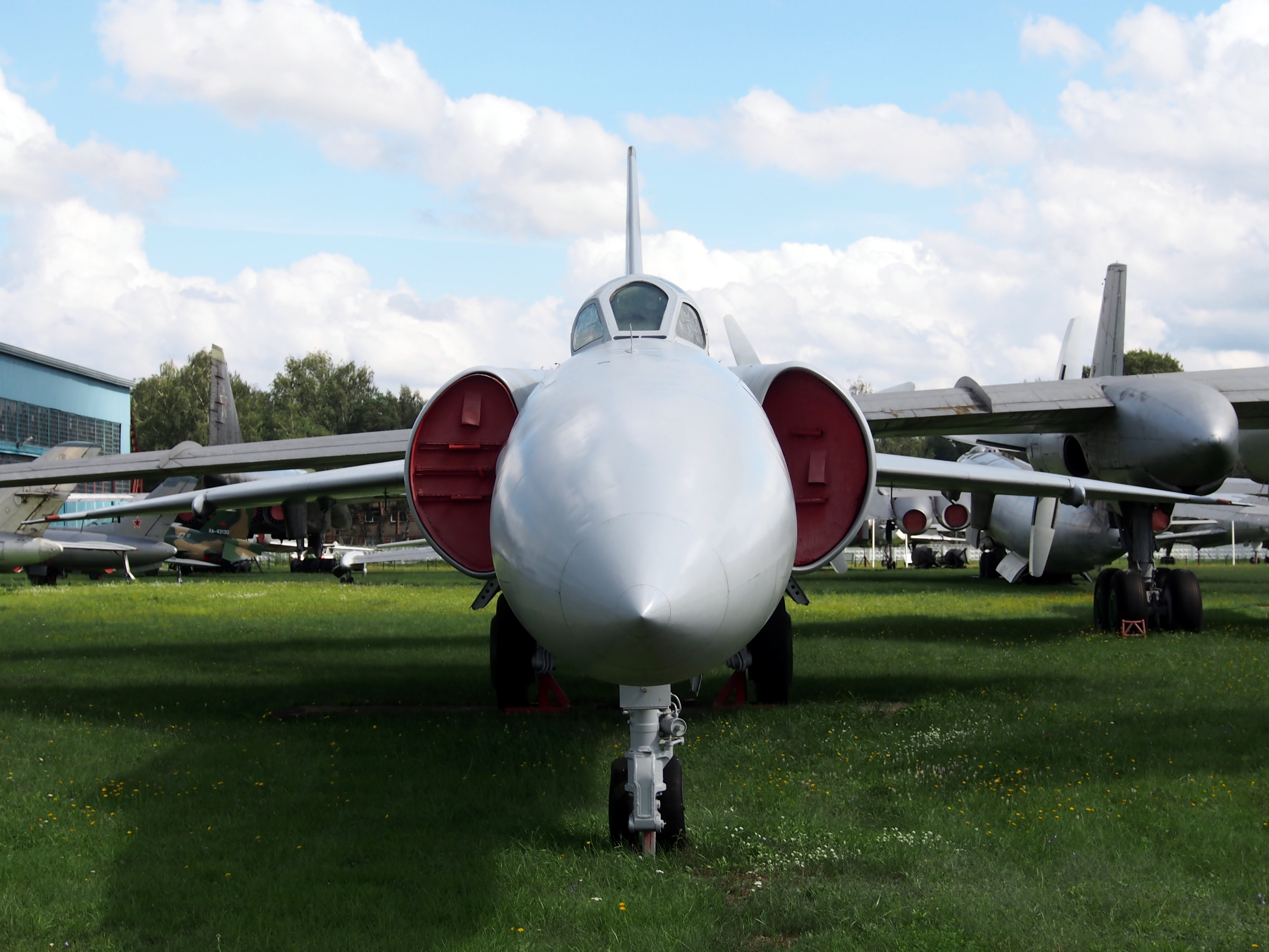 Lavochkin La-250A Anakonda at the Central Air Force Museum